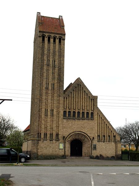 Gedser Kirke (church)